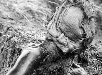 "Grauballe Man," a bog body, upon his dicovery in 1952.